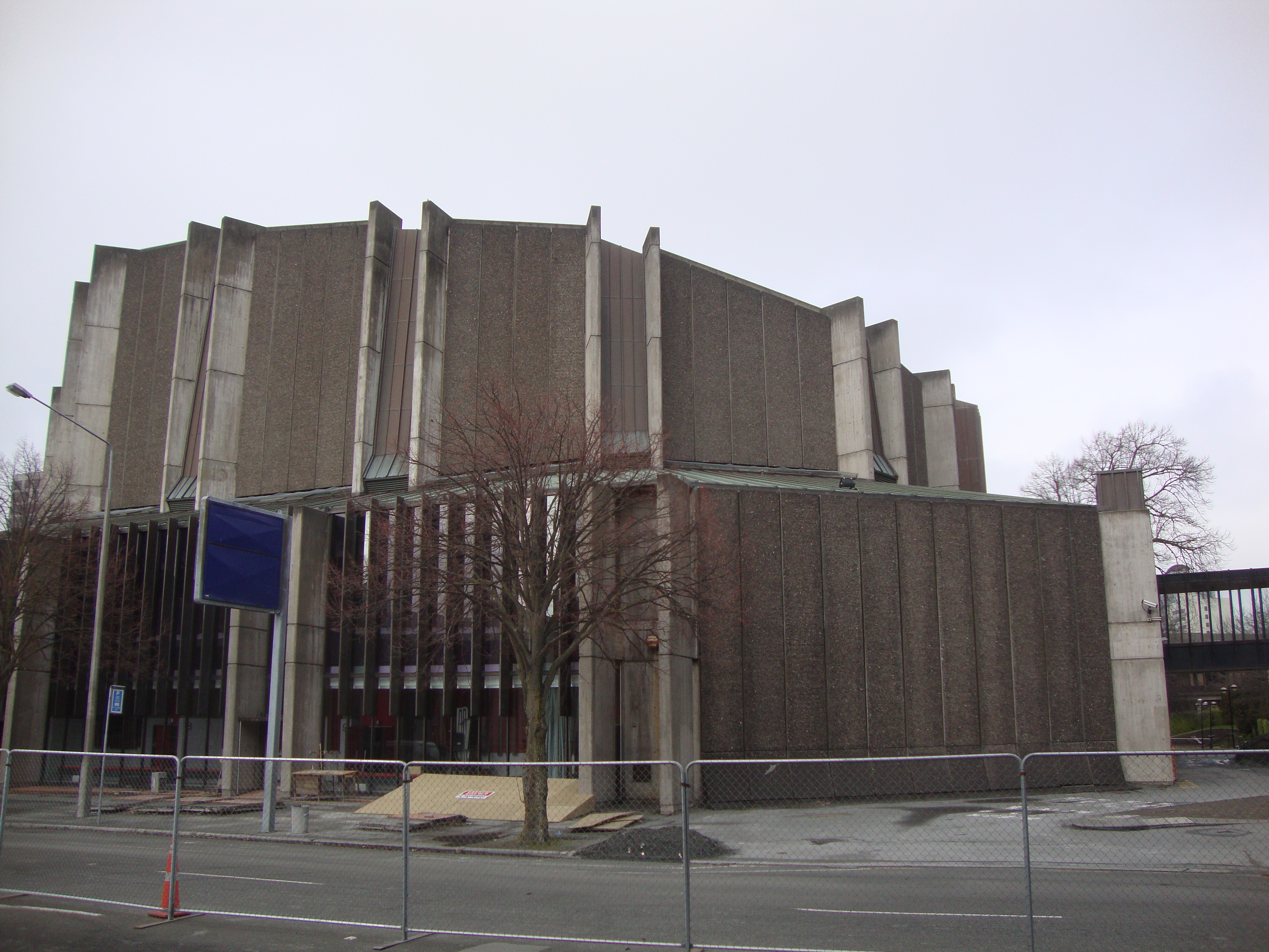 Christchurch Town Hall in August 2011.